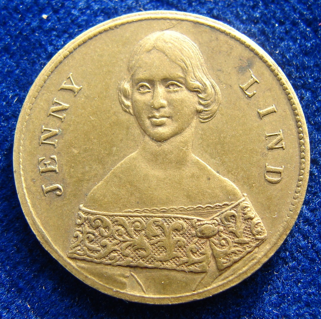 Jenny Lind (1820-1887) - Goldschmidt, Swedish vocalist, 1820 Stockholm - 1887 Malvern, Worcestershire, England Bronze medallion, d.= 22 mm. This token was probably issued for Jenny's tour of America, 1850 – 1852. It shows her year of birth 1821 in contrary to 1820 in the Oxford University Press. Carole Rosen, ‘Lind , Jenny (1820–1887)’, Oxford Dictionary of National Biography, Oxford University Press, 2004 accessed 10 June 2014. This contradiction needs more research to be done. Portrait facing, curved above: "JENNY LIND"/ Lyre between branches, around: "NESCIT OCASUM NATA 1821". Fuld/Rulau Jenn-11 .